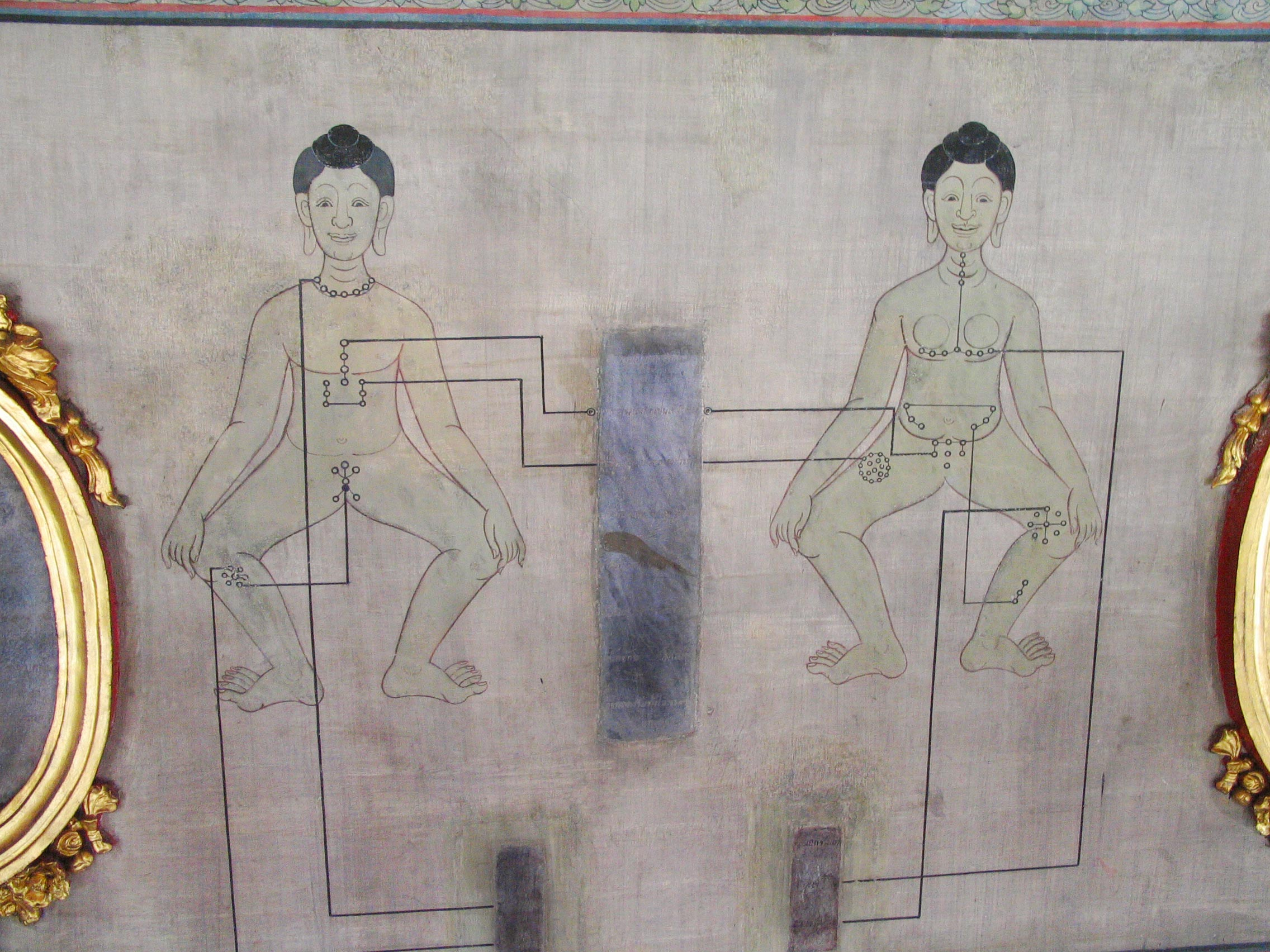 Murals within "Medicin Pavillon", Wat Pho, Bangkok, Thailand